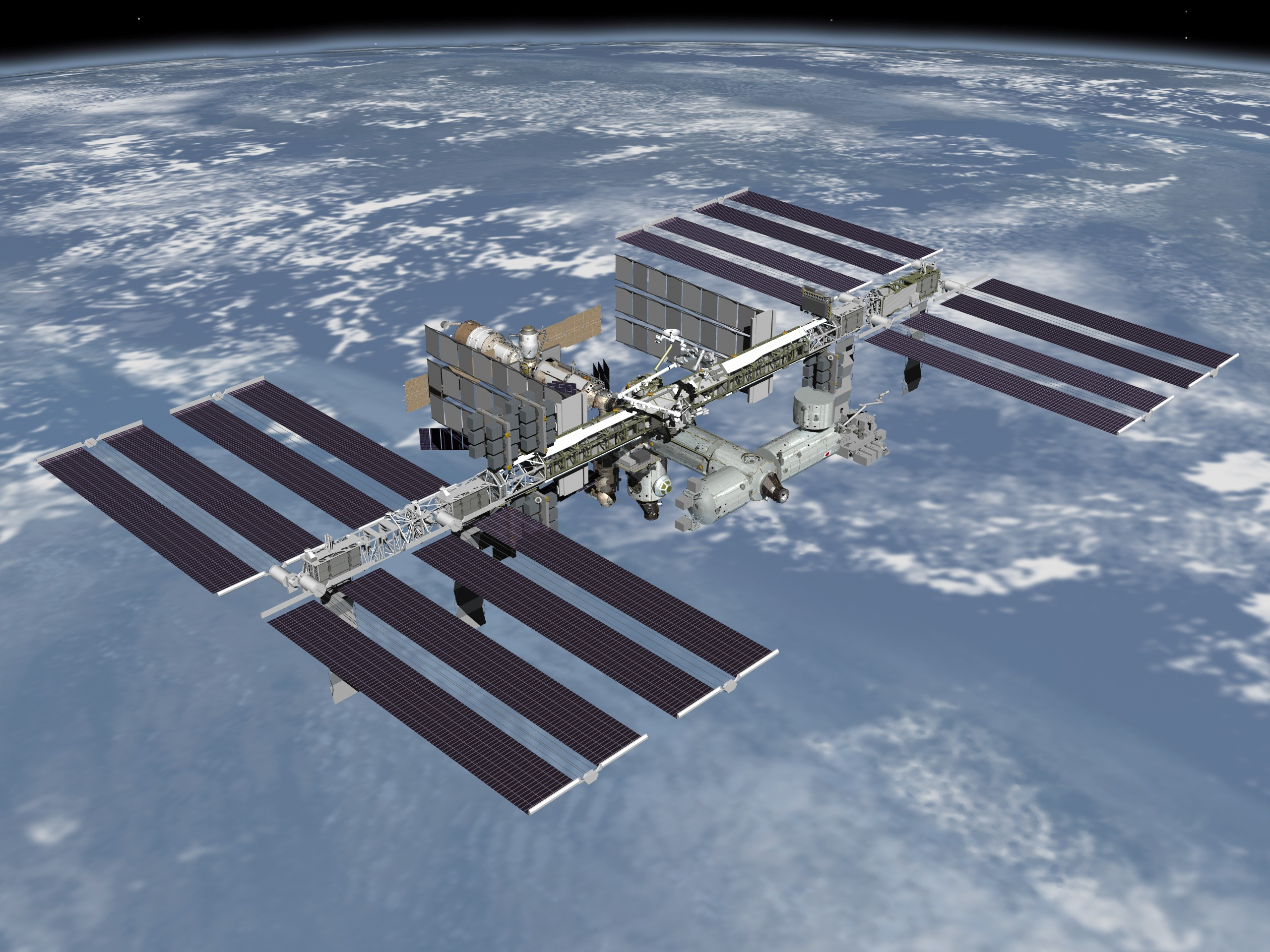 JSC2006-E-43519 (October 2006) --- Computer-generated artist's rendering of the completed International Space Station, due to be completed in 2010.